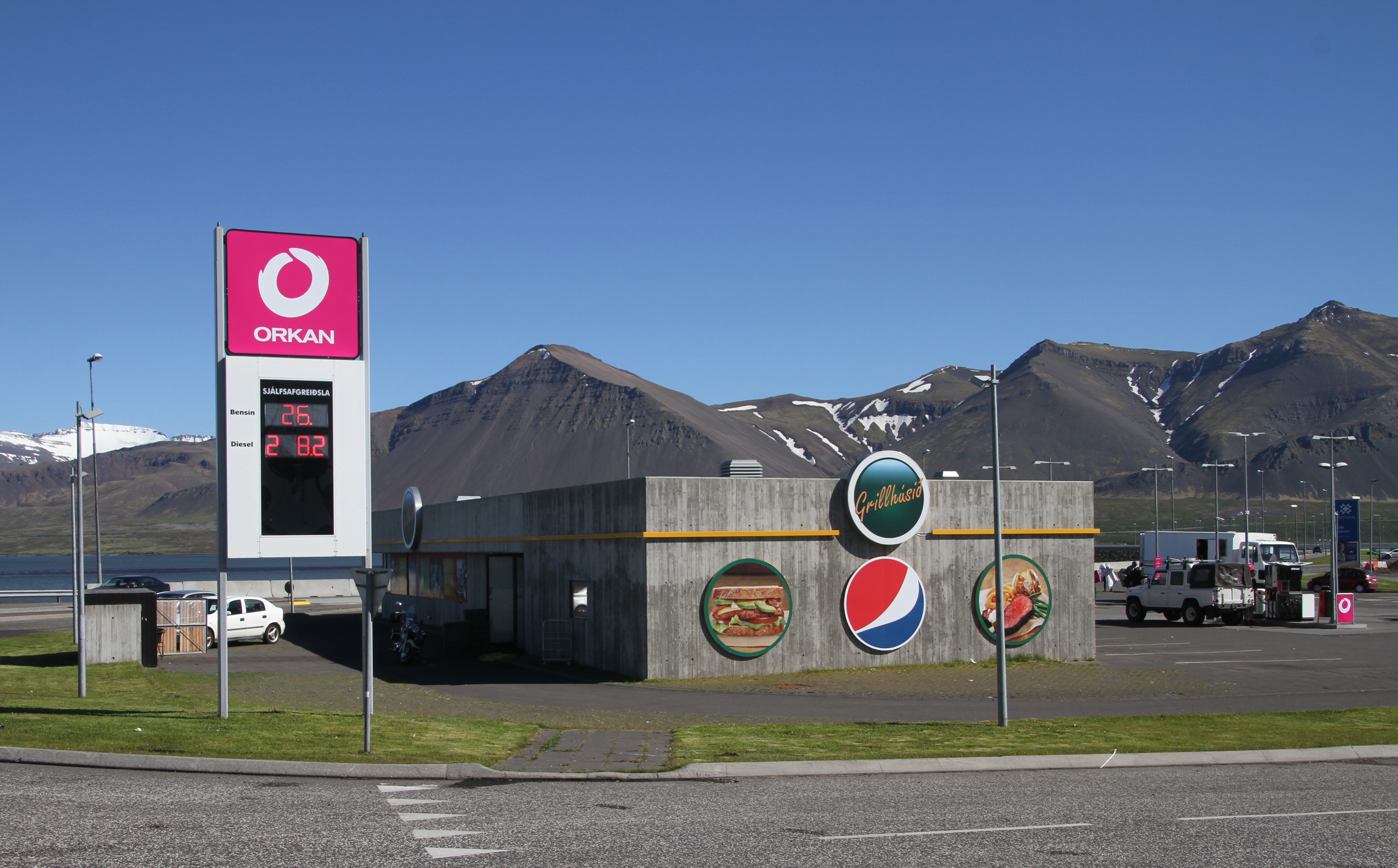 Petrol station in Borgarnes